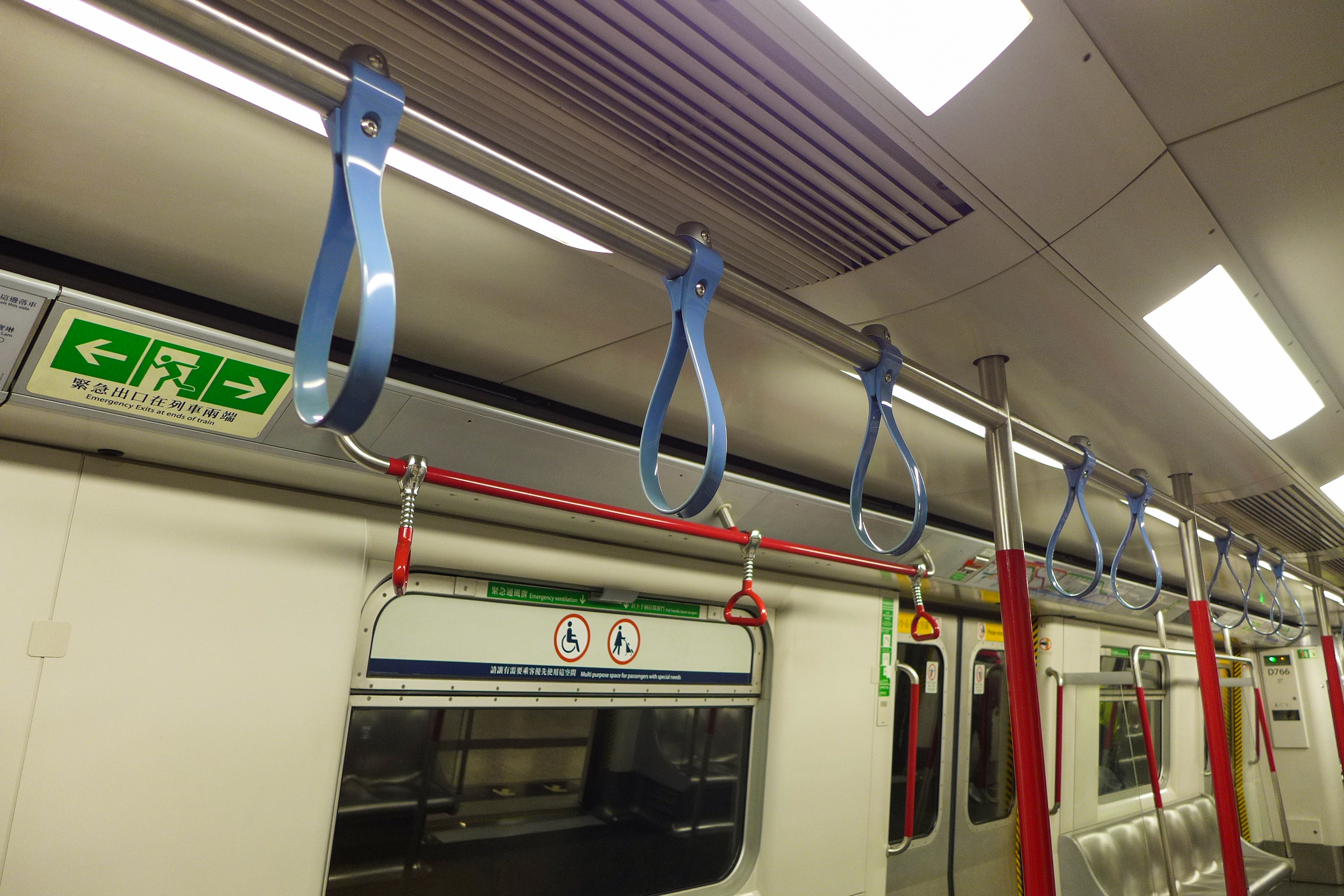 M-Train Handrail mock up